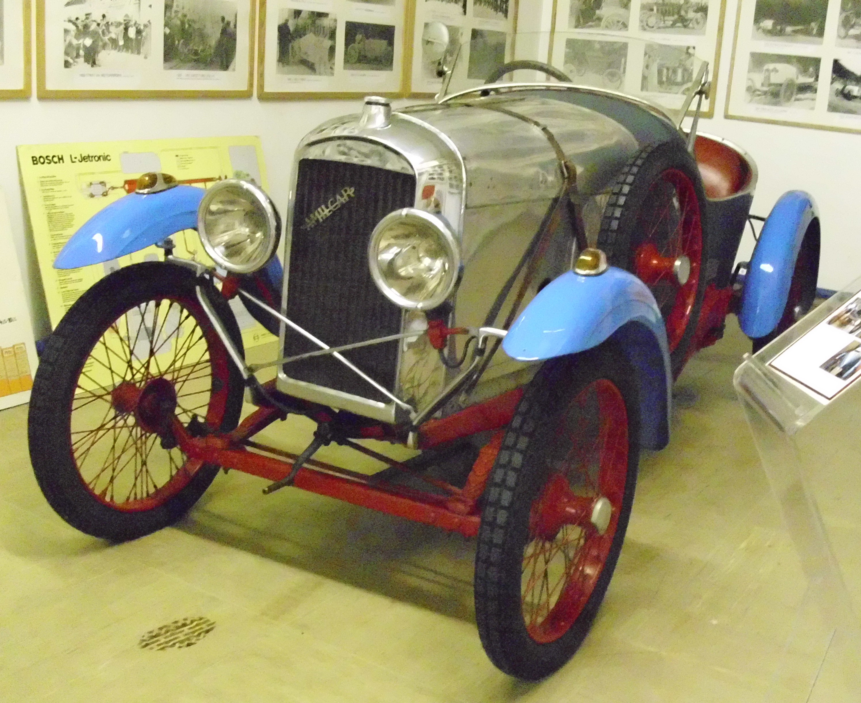 Amilcar Type CC Roadster 1924